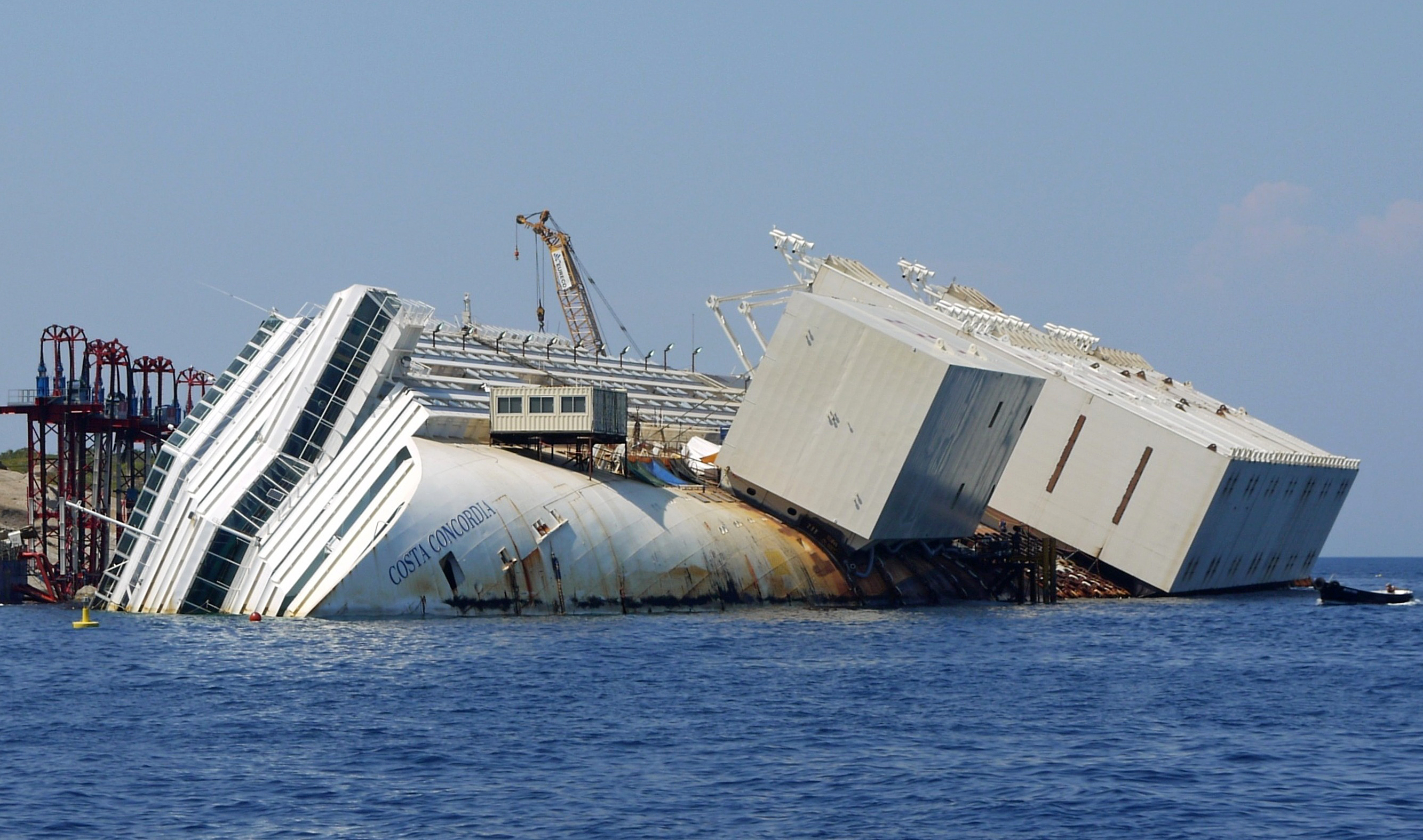 Costa Concordia shipwreck with buoyancy caissons at Isola del Giglio, July 2013